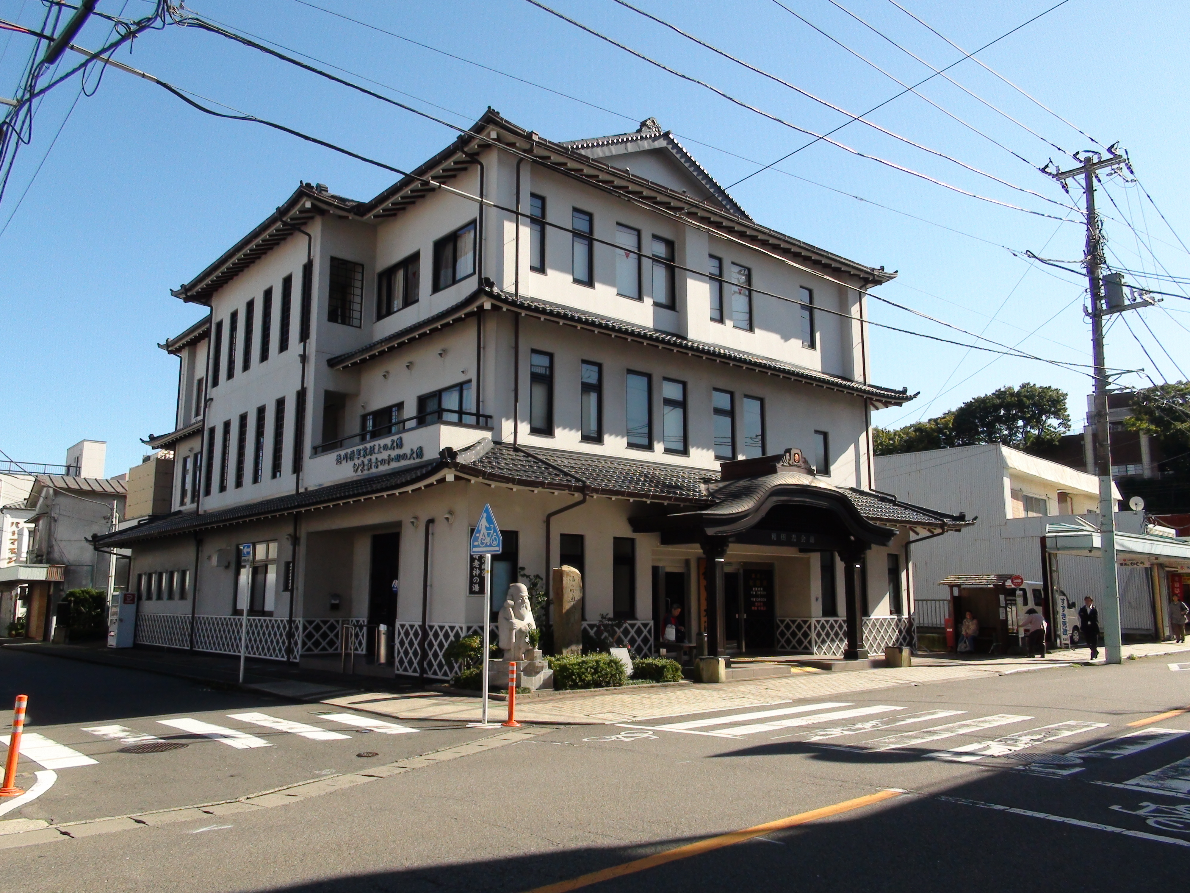 Wada-Yu hot spring. Ito City. The oldest public bathhouse in Ito hot spring.